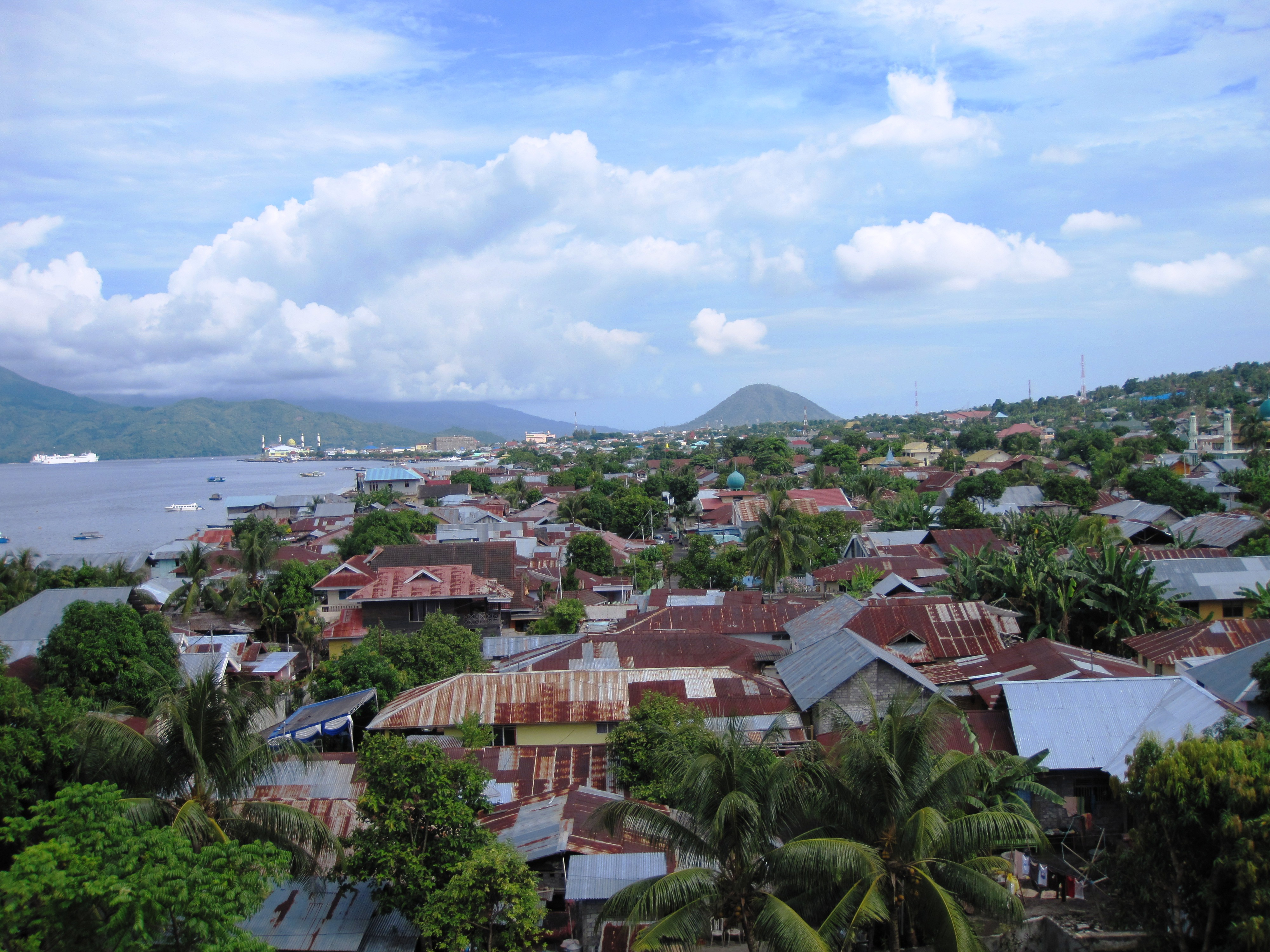 Ternate City, located on the island of the same name, is the former administrative centre of North Maluku Province, Indonesia. U.S. Foreign Service Liaison Officer Tom Weinz captures a photo as the USNS Mercy for Pacific Partnership 2010 arrives in Ternate, Indonesia, on July 18, 2010.